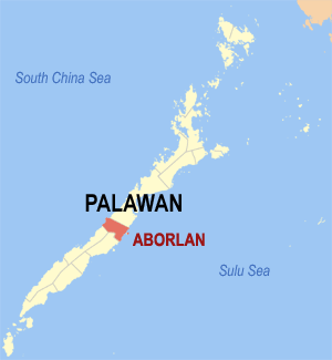 Map of Palawan showing the location of Aborlan